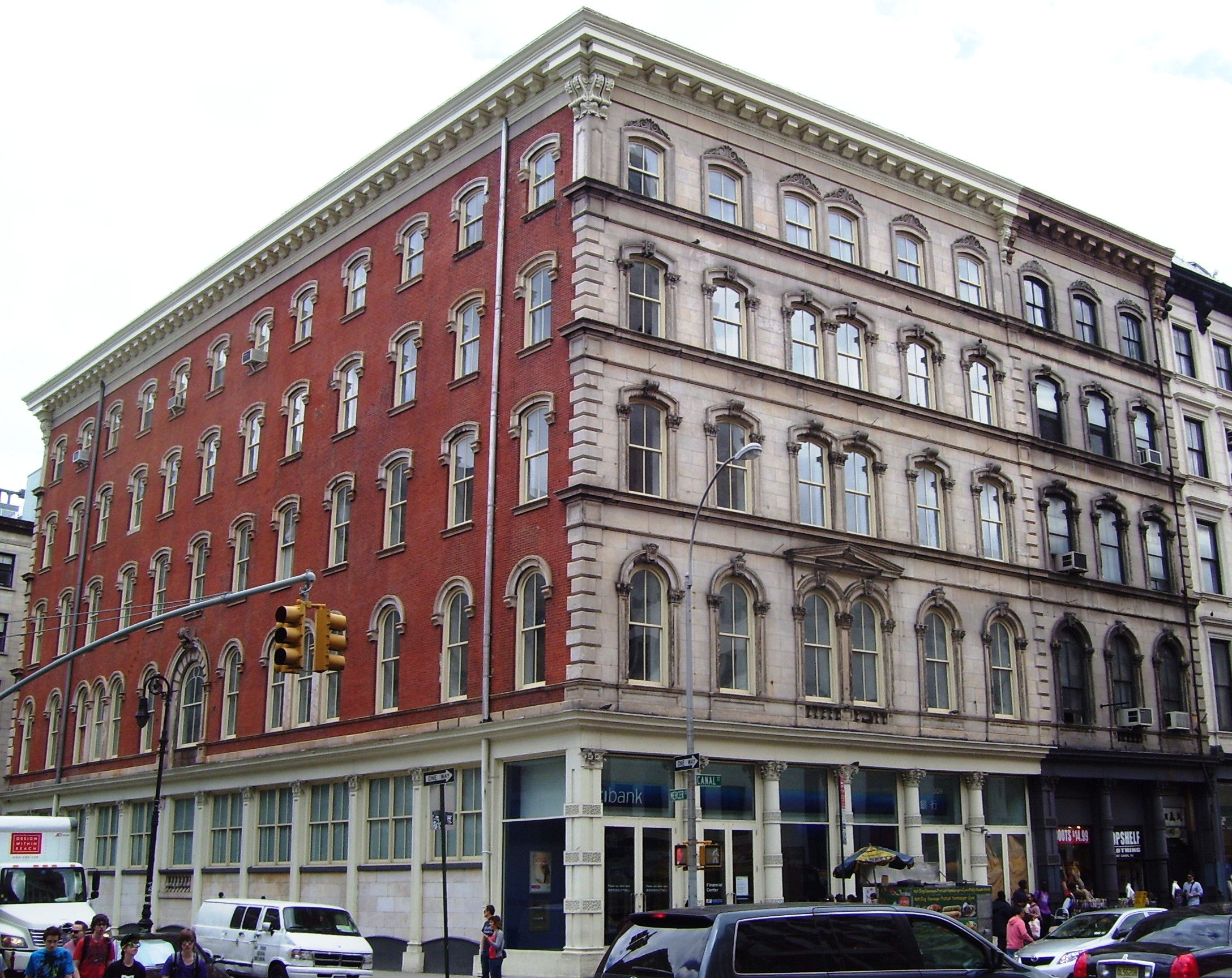 307-311 Canal Street at the corner of Mercer Street in the SoHo neighborhood of Manhattan, New York City. The Arnold Constable Dry Goods Emporium had the four-story building at 309-311 (left) built in 1856 and moved in in 1857. The five-story building next door, at 307 (right), was built in 1862, along with a fifth floor to the original building. The store moved uptown to the Ladies' Mile in 1869. (Source: AIA Guide to NYC (4th ed.)) On the far right is 305 Canal Street, built in 1915. {Source: NYC GIS Map)